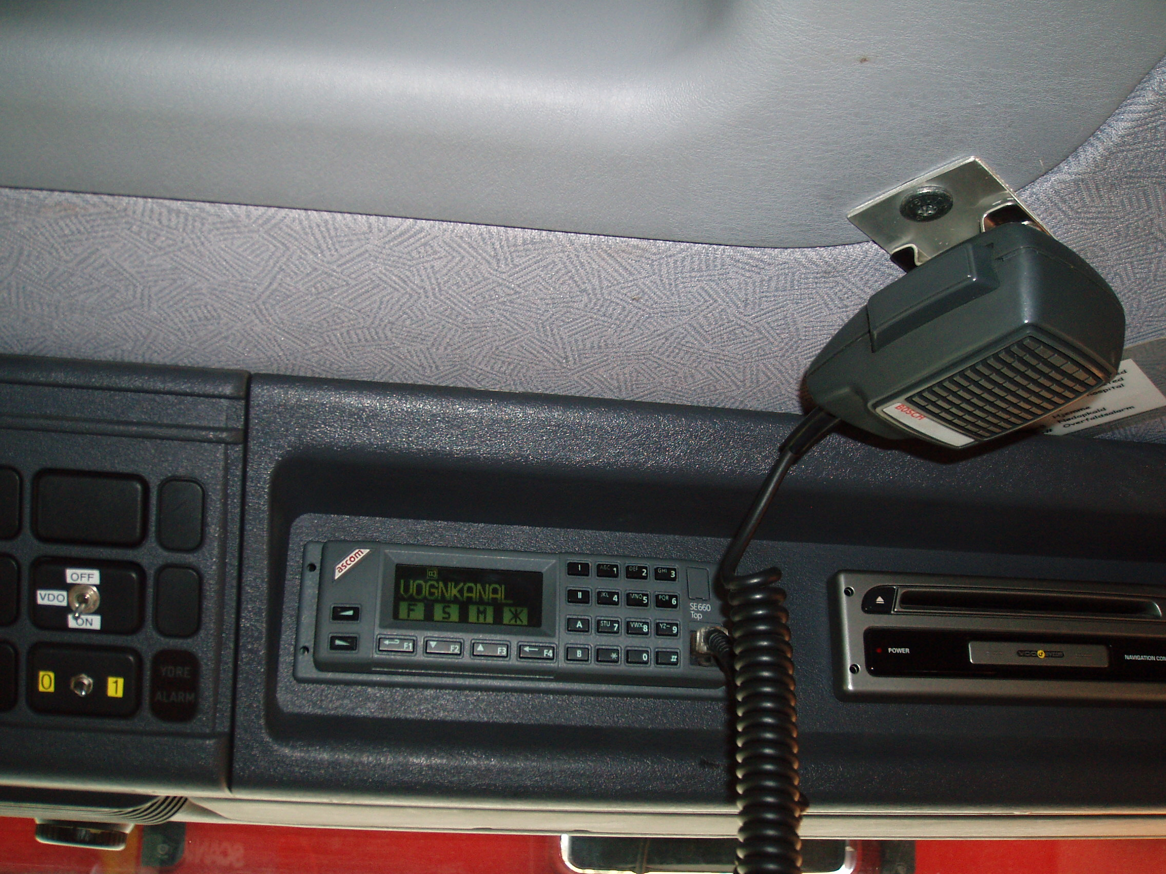 Ascom SE 660 radio tranceiver placed in Danish fire truck. II is used a function key with numbers to send vehicle's status to control centre. The microphone is attached to the ceiling and can easily be taken down for talking. The microphone unit also has a built-in speaker.